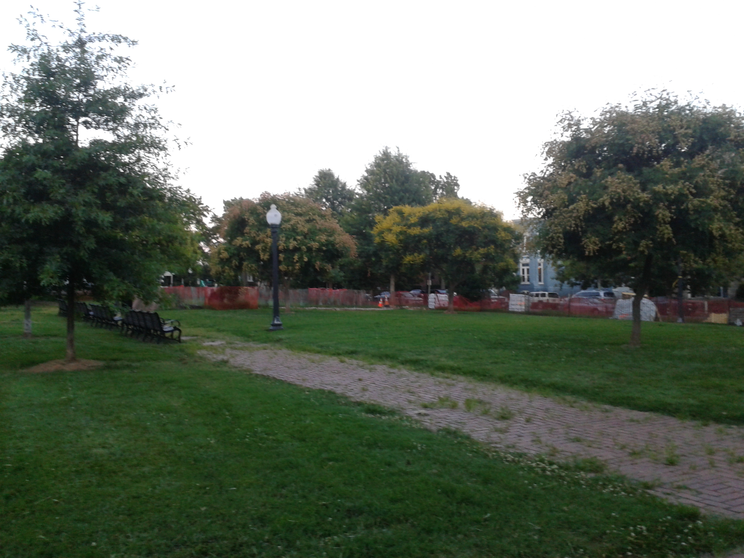 Marion Park on Capitol Hill, seen in 2014 under renovation